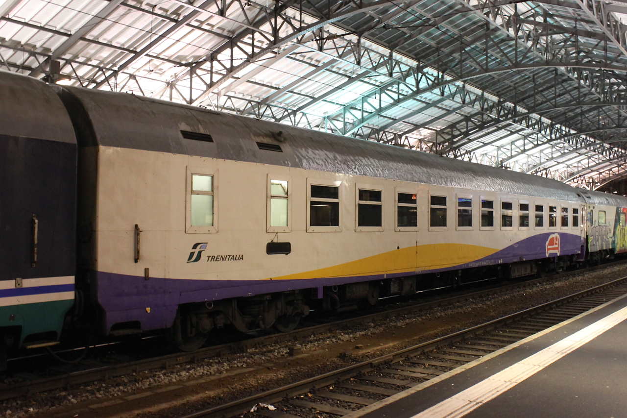 Trenitalia WLABm 61 83 72-71 766-9 seen at Lausanne in the consist of EN 227 "Palatino" Paris-Bercy — Roma Termini.